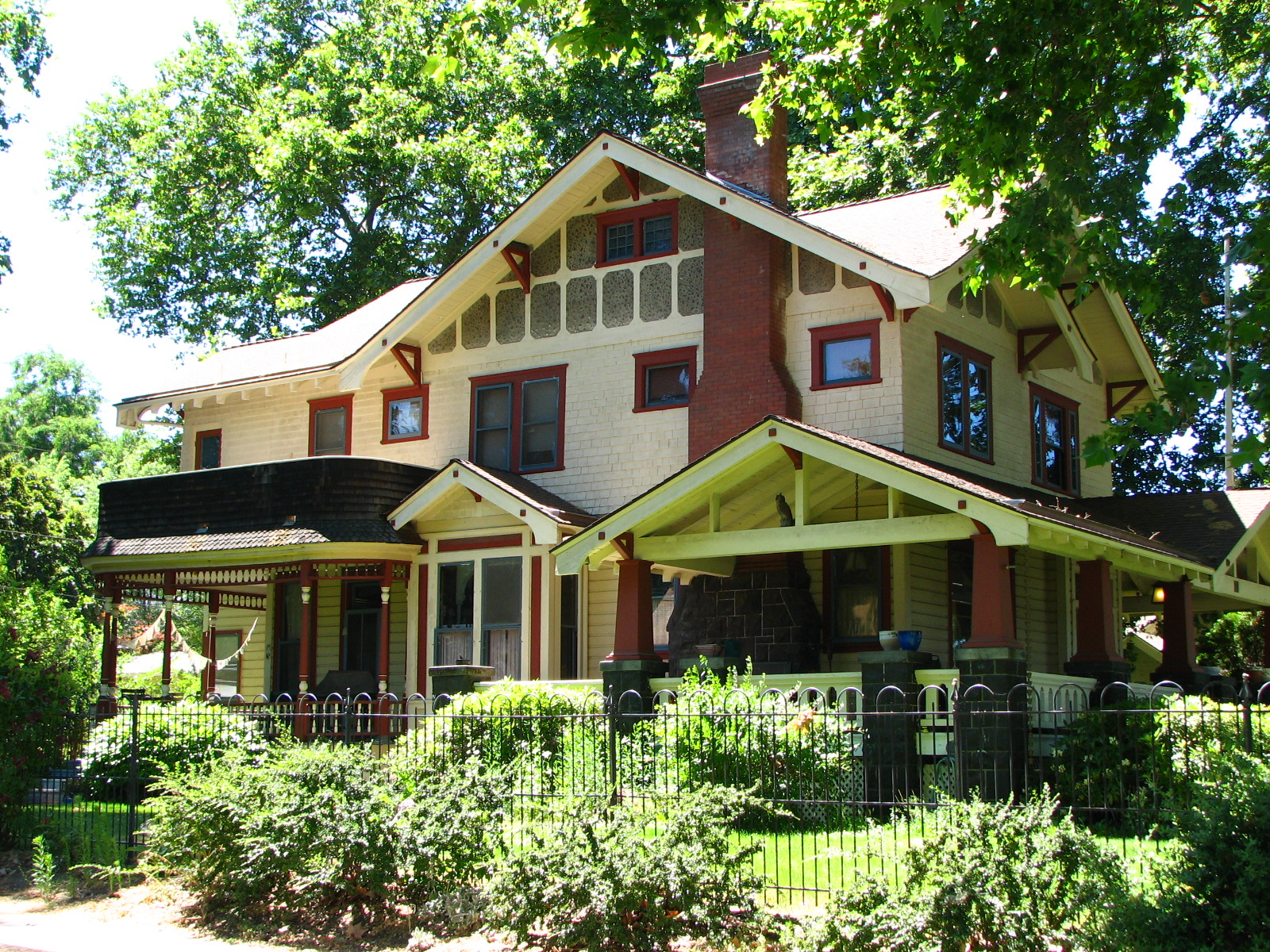 The historic Dr. J.A. Reuter House (built ca. 1890) at 420 East 8th Street in The Dalles, Oregon, United States, is listed on the US National Register of Historic Places. It remains in its historic use as a residence.